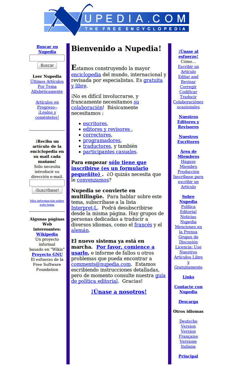 Spanish screenshot from Internet Archive.